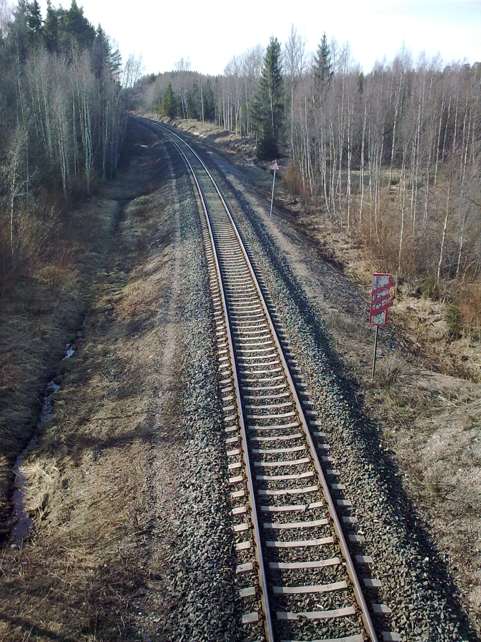 Jakobstad railway seen from bridge of Regional road 749